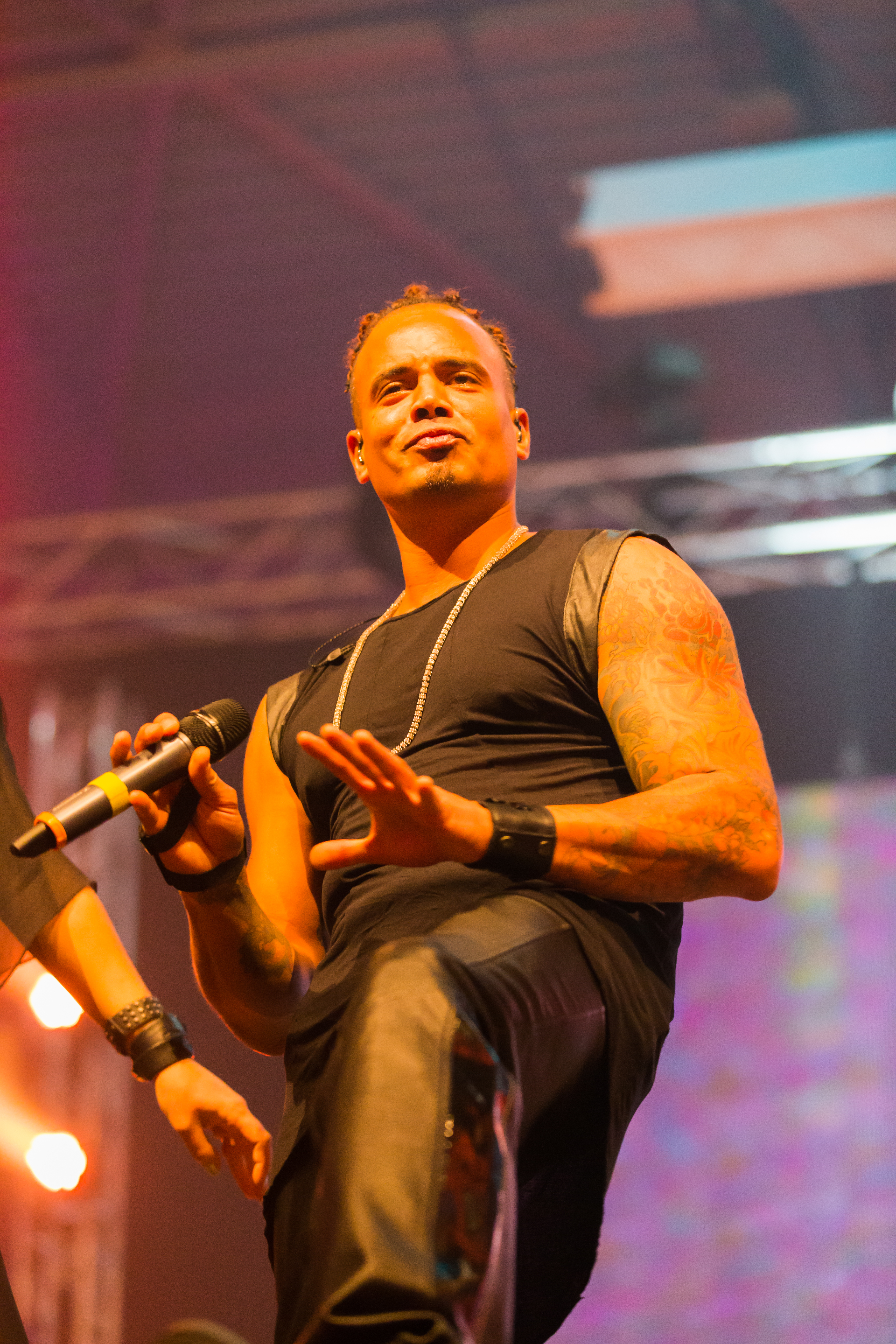 sunshine live "Die 90er - Live On Stage" Maimarkthalle Mannheim DJ Falk, Magic Affair, Captain Hollywood Project, Haddaway, Masterboy, 2 Unlimited, Marusha, Charly Lownoise